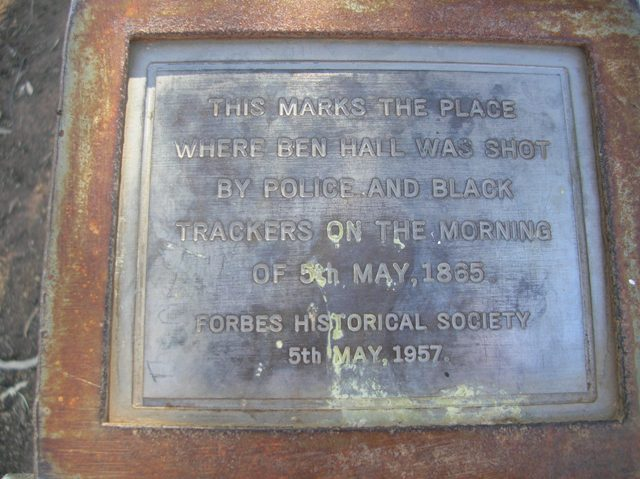 Ben Hall's Death Site: Plaque details.